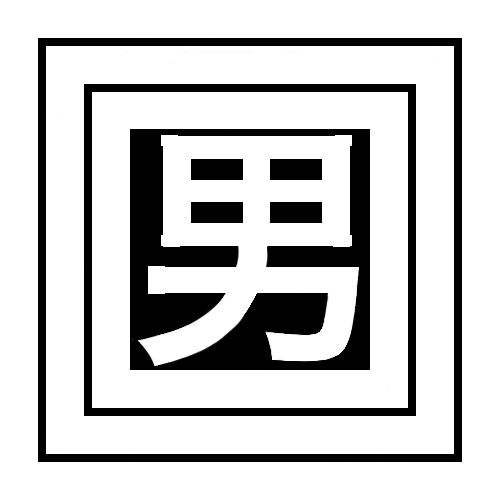 Japanese family crest "Mimasu no naka ni Otoko", three volume measuring boxes (masu) stacked, carrying a kanji "男" (otoko, male, man) in the center